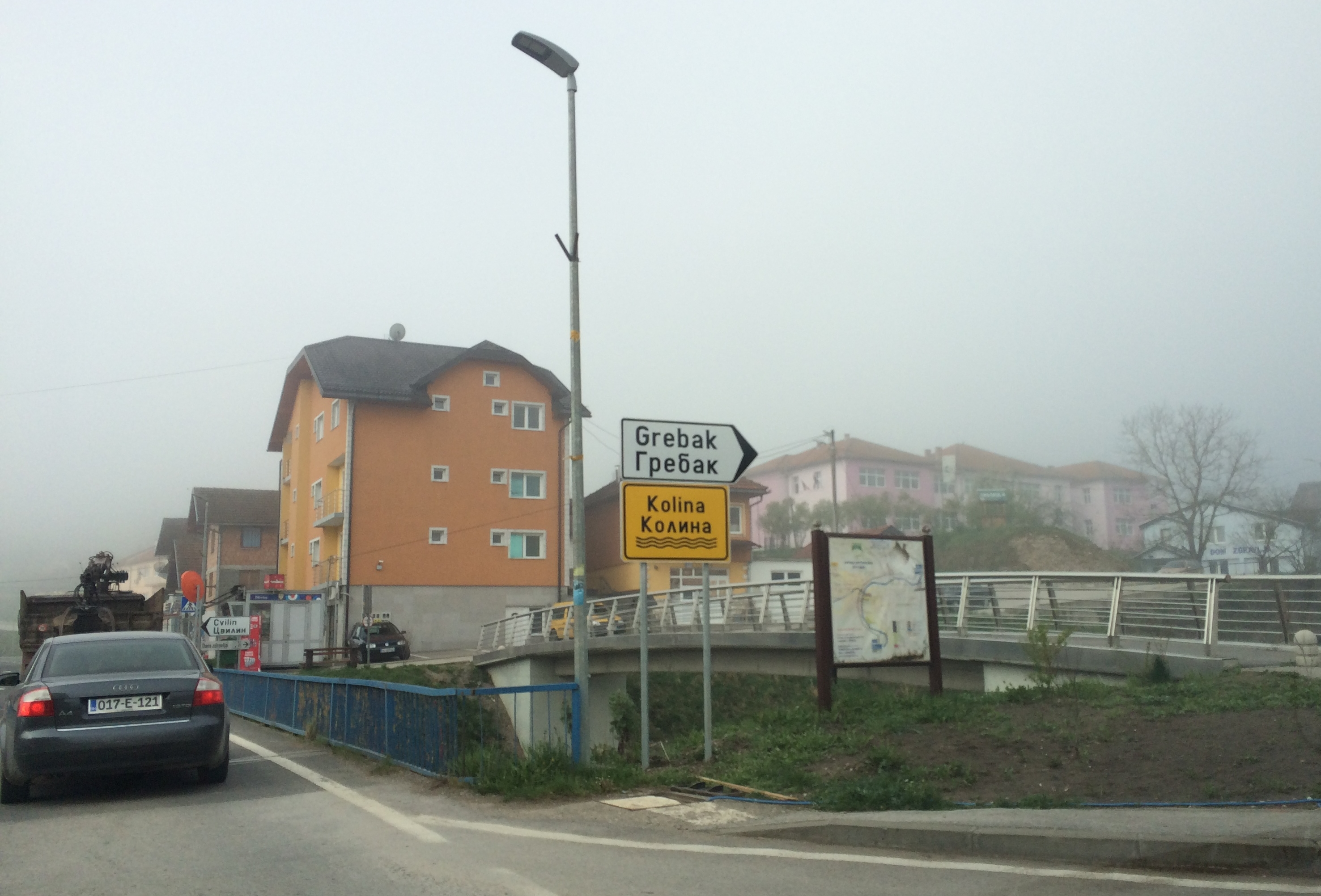 Image from the municipality of Foča-Ustikolina, Bosnia & Herzegovina